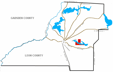 Created by user.